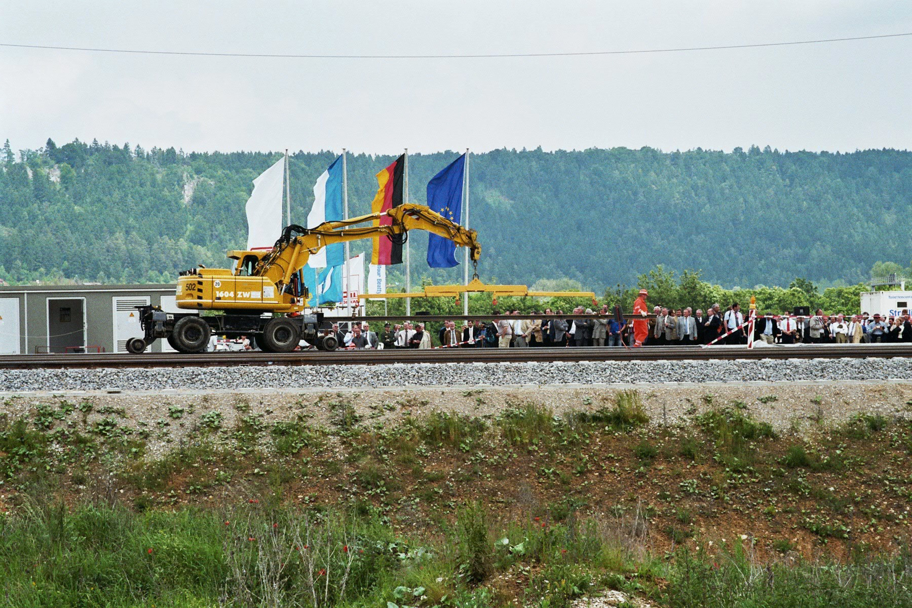 „Last gap closing ceremony“ of the Nuremberg-Ingolstadt(-Munich) high-speed railway track. This took place at the railway station of Kinding, early in the afternoon at May 13th, 2005. For this purpose, a 11-meter rail had been cut out and taken away a few hours earlier. For the ceremony, an excavator takes it back to the original place.